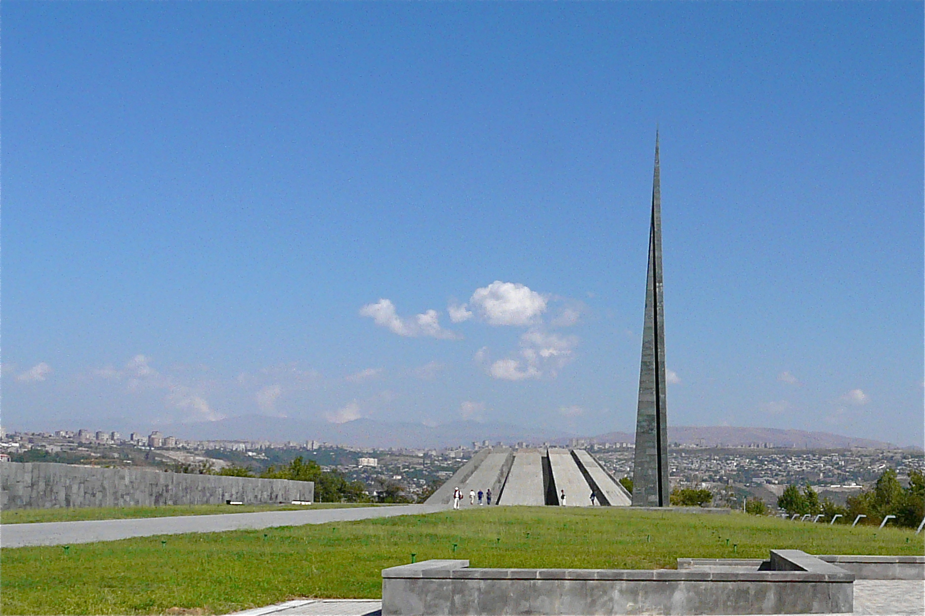 Tsitsernakaberd - Yerevan In 1965, the 50th anniversary of the genocide, a 24-hour mass protest was initiated in Yerevan demanding recognition of the Armenian Genocide by Soviet authorities. The memorial was completed two years later, at Tsitsernakaberd above the Hrazdan gorge in Yerevan. The 44 metres (140 ft) stele symbolizes the national rebirth of Armenians. Twelve slabs are positioned in a circle, representing 12 lost provinces in present day Turkey. At the center of the circle there is an eternal flame. Each April 24, hundreds of thousands of people walk to the genocide monument and lay flowers around the eternal flame.